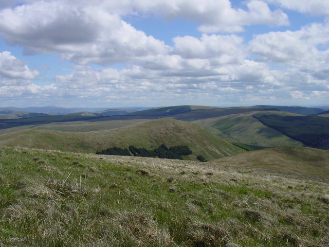 View SE from near the summit of Alhang. Looking SE from near the summit of Alhang, the ridge with some woodland on it on the left is Ewe Hill.